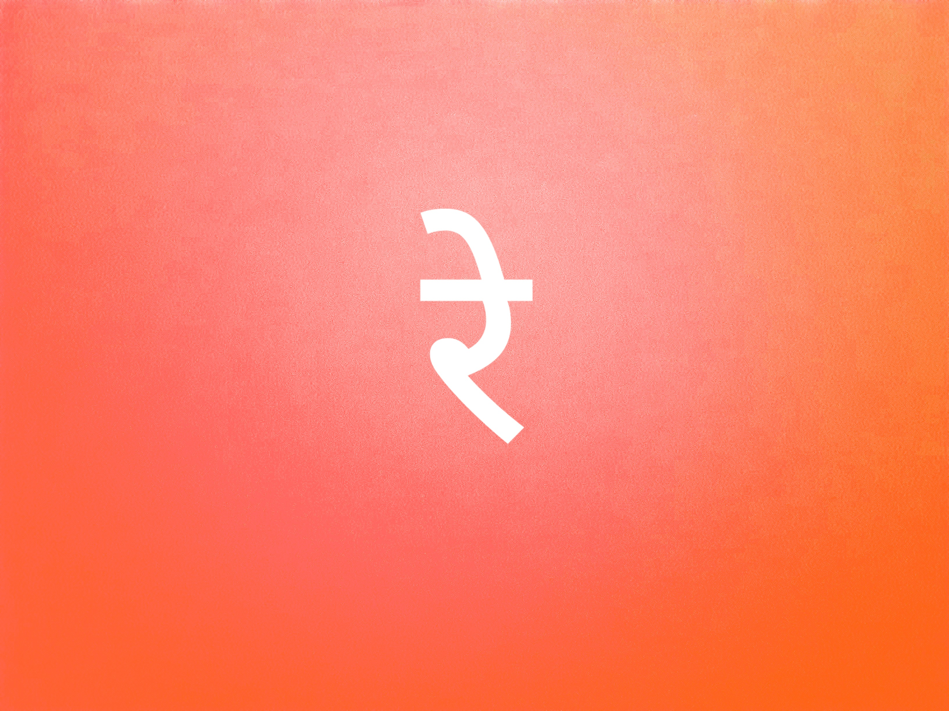 Ṛiṣabha (Re)